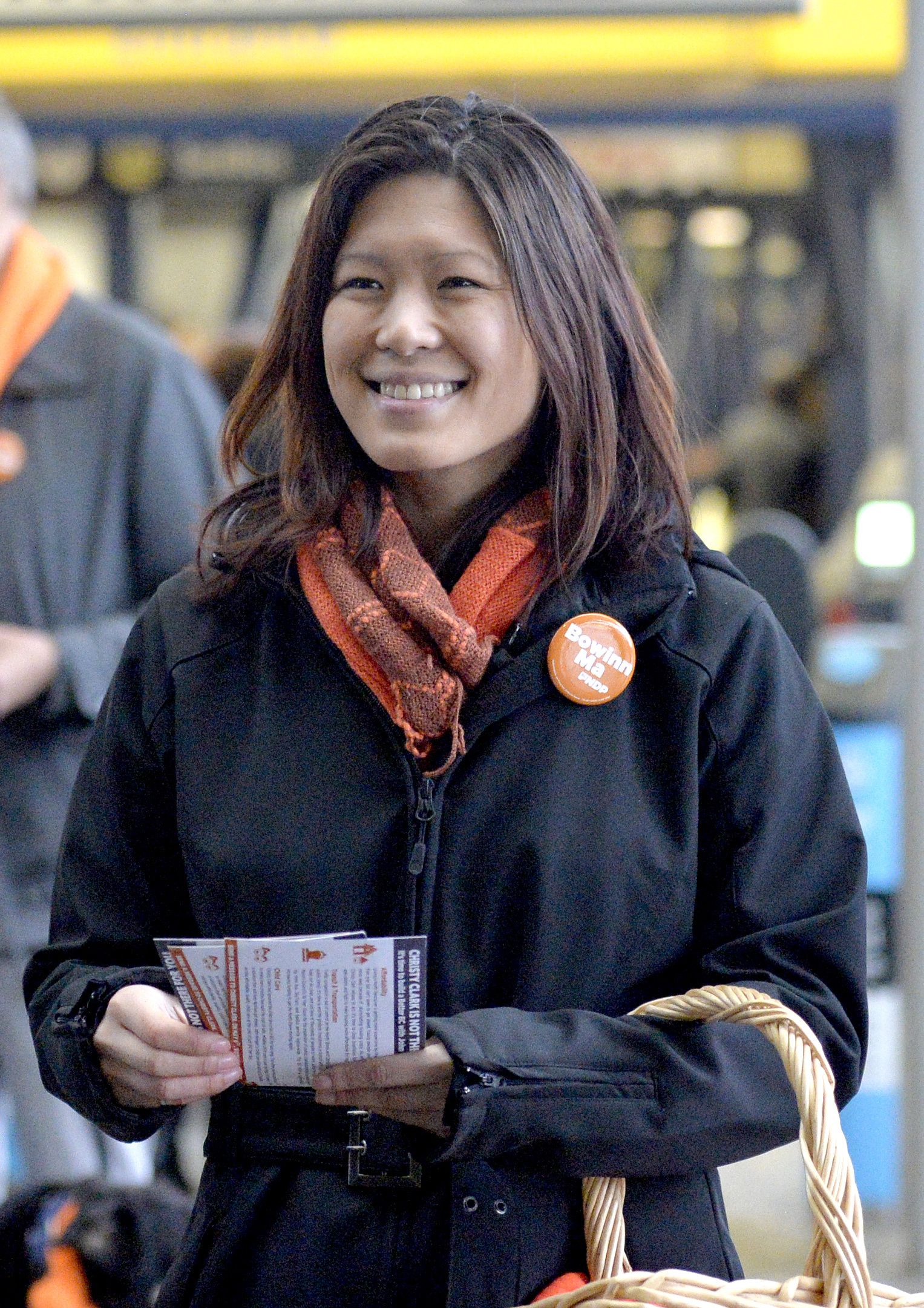 April 5, 2017. Bowinn Ma, candidate for North Vancouver-Lonsdale, campaigns at the sea bus terminal.